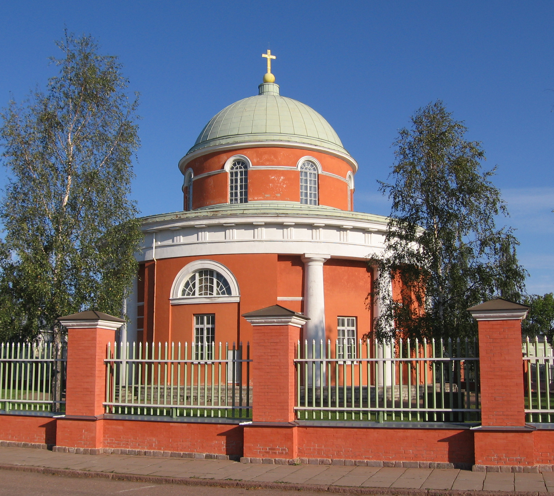 Hamina Orthodox Church, Finland